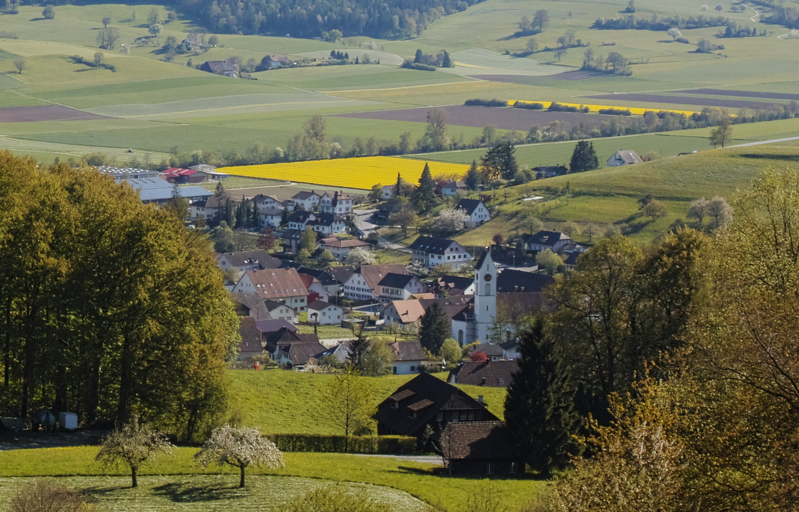 Naturpark Thal: View of Laupersdorf from the hiking trail to Höngen (cropped version).